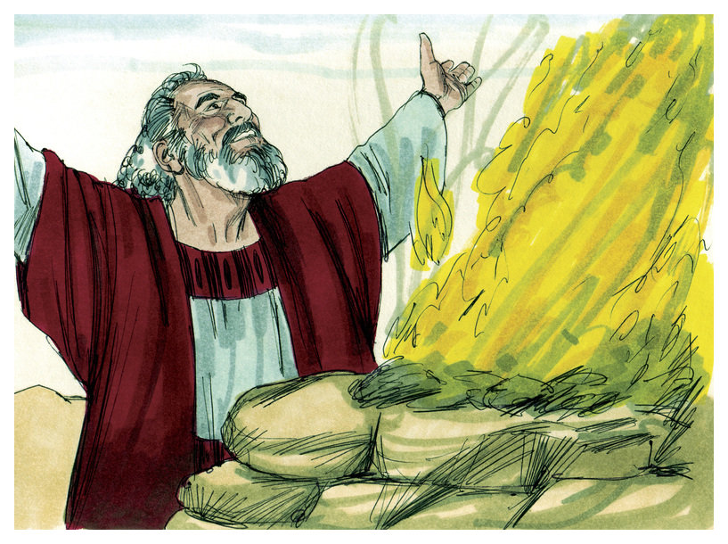 Biblical illustration of Book of Genesis Chapter 8